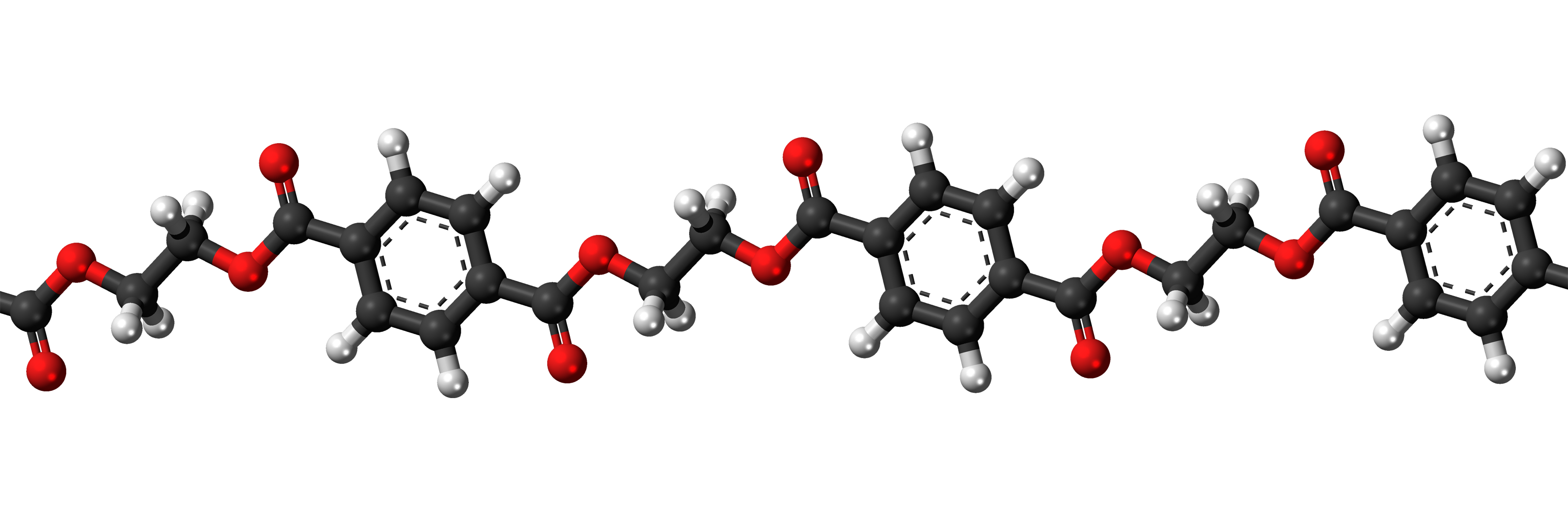 Ball-and-stick model of a section of the polyethylene terephthalate polymer, also known as PET and PETE, a polyester used in most plastic bottles. Colour code: Carbon, C: black Hydrogen, H: white Oxygen, O: red